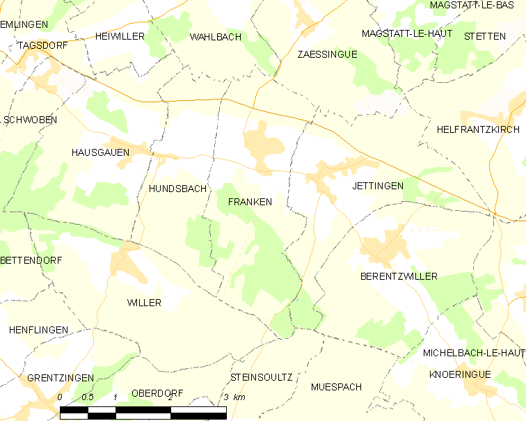 Map of French municipality